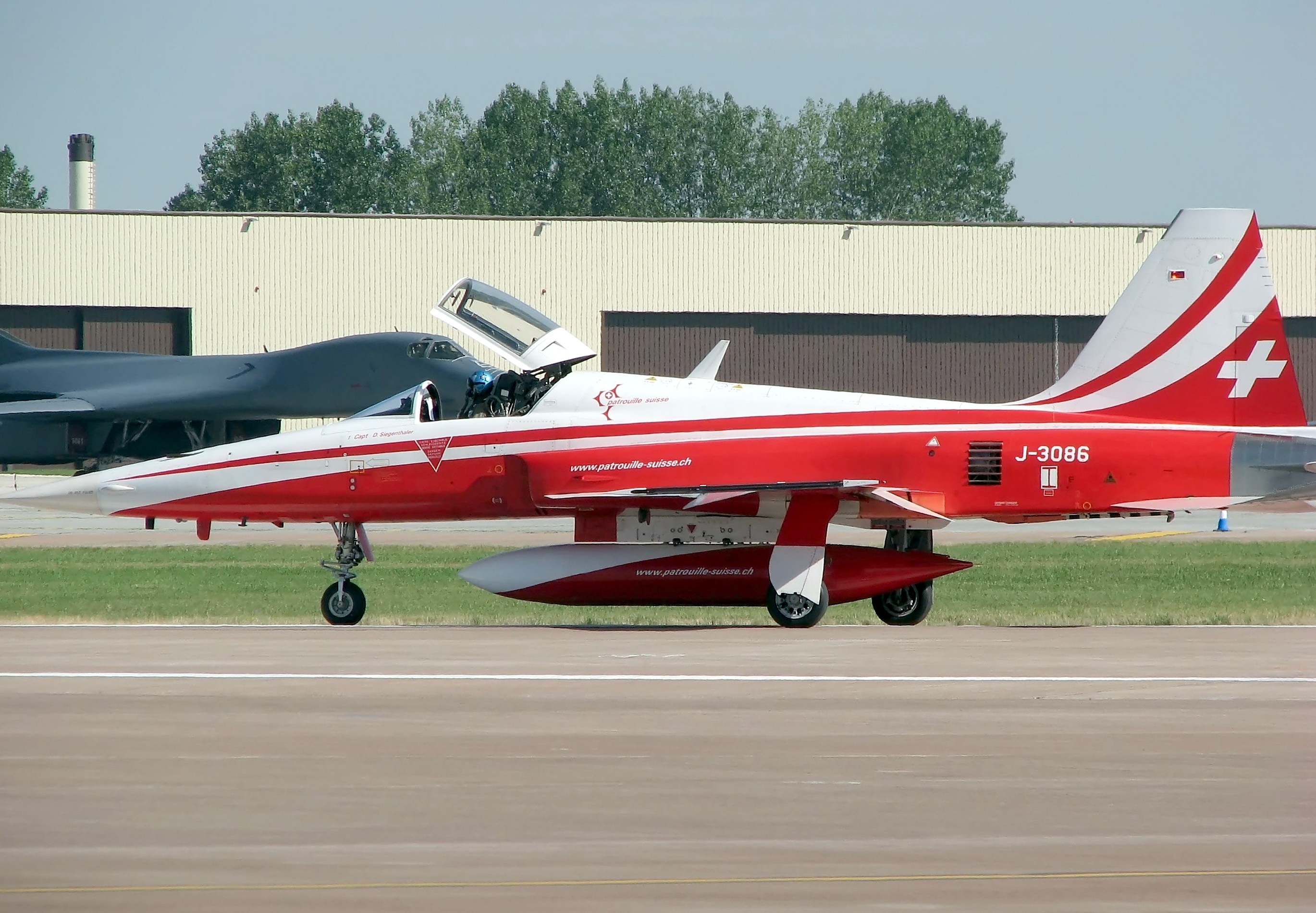 Northrop F-5E Tiger II (J3086) of the Patrouille Suisse aerobatics team leaving the Royal International Air Tattoo, Fairford, Gloucestershire, England, to return home. Beyond it is a B-1 Lancer. Photographed by Adrian Pingstone on July 17th 2006 and released to the public domain.